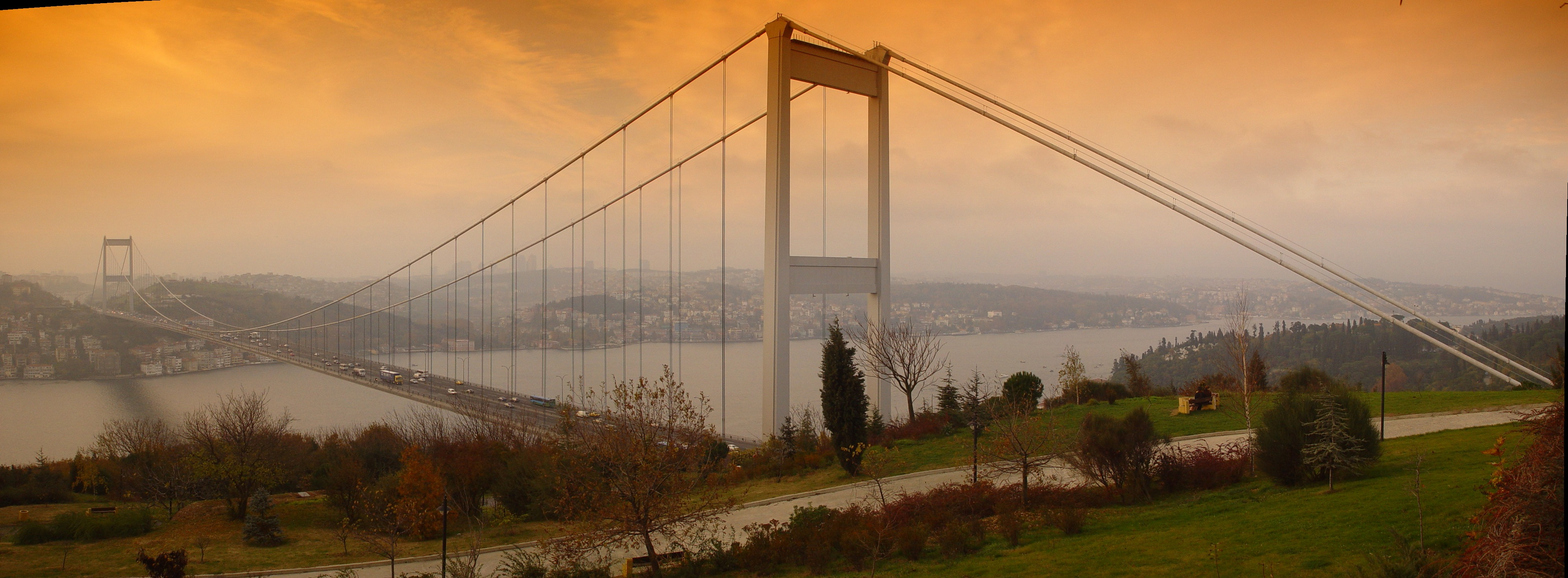 Fatih Sultan Mehmet bridge from Otağtepe